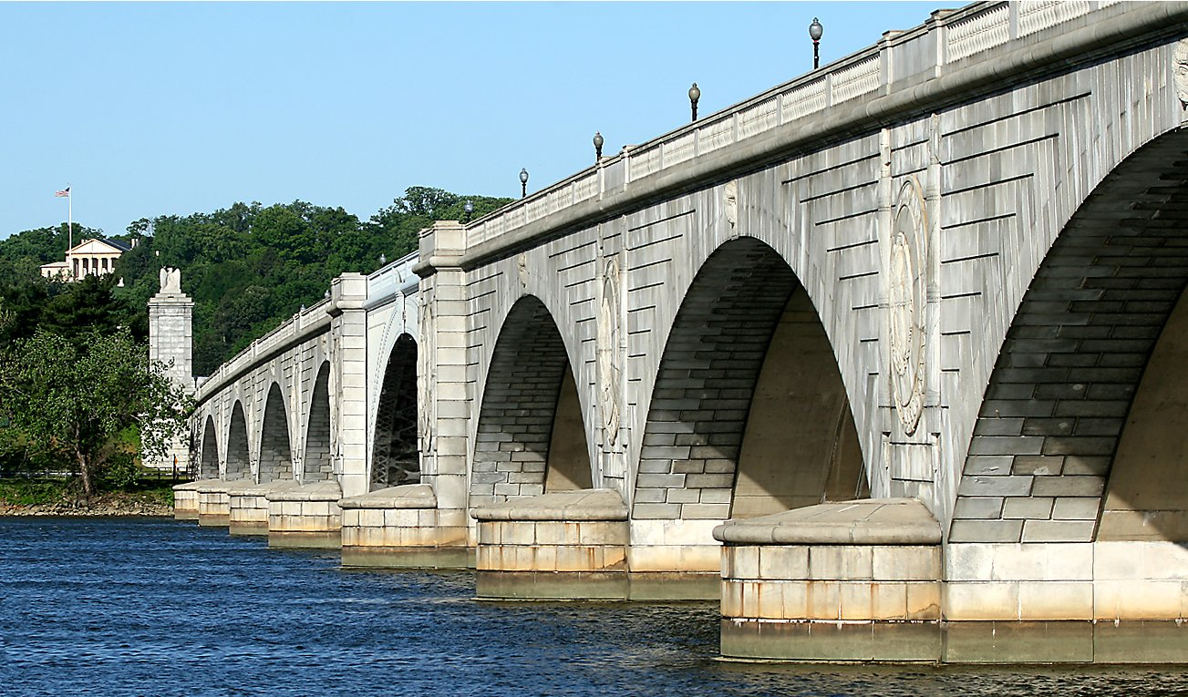 standing by the lincoln memorial looking across the potomac towards arlington cemetary. that is robert e. lee's former house up on the hill.